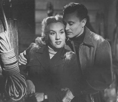 Arroz con leche- película argentina de 1950